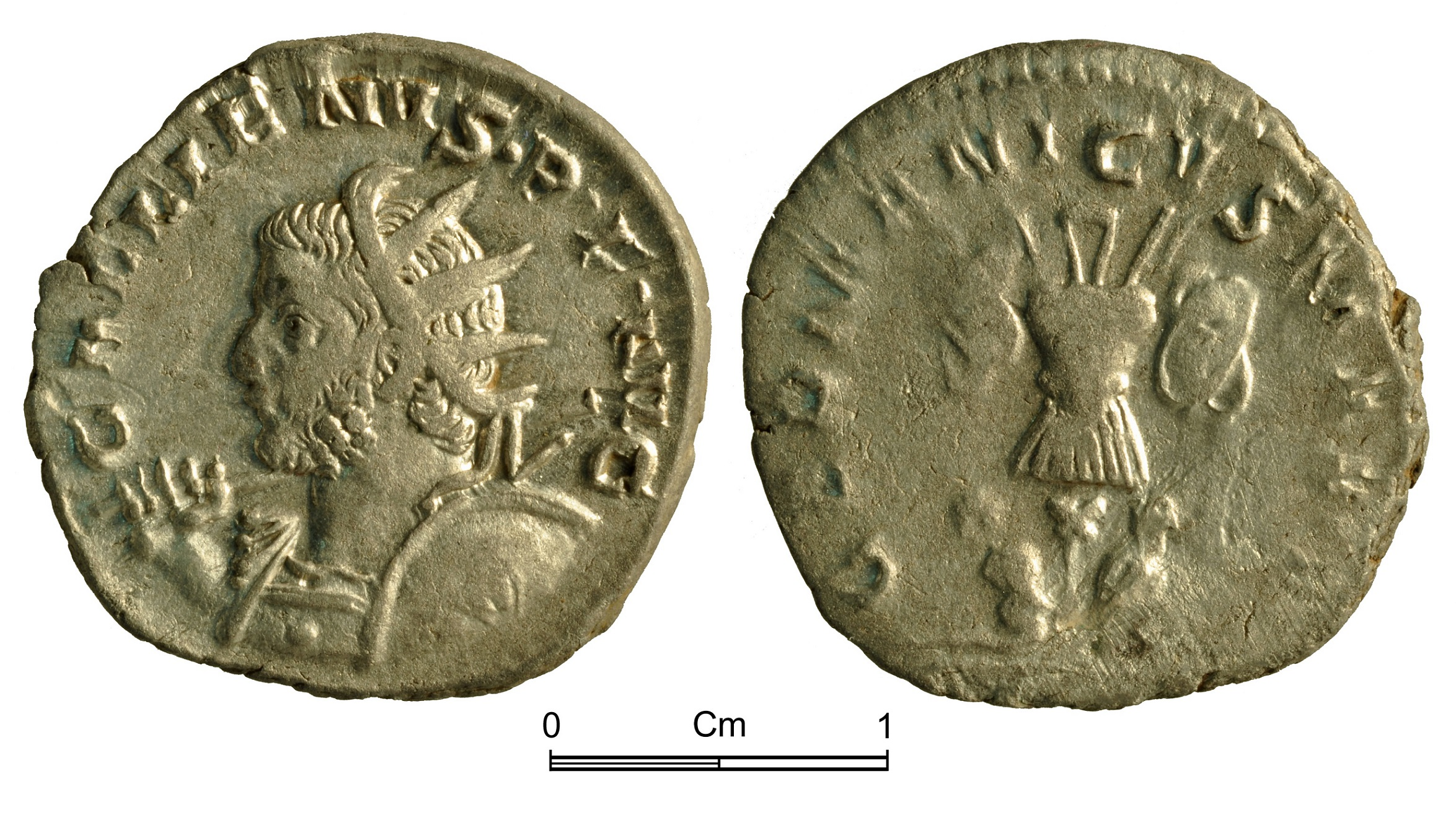 Roman Coin: Gallienus, radiate